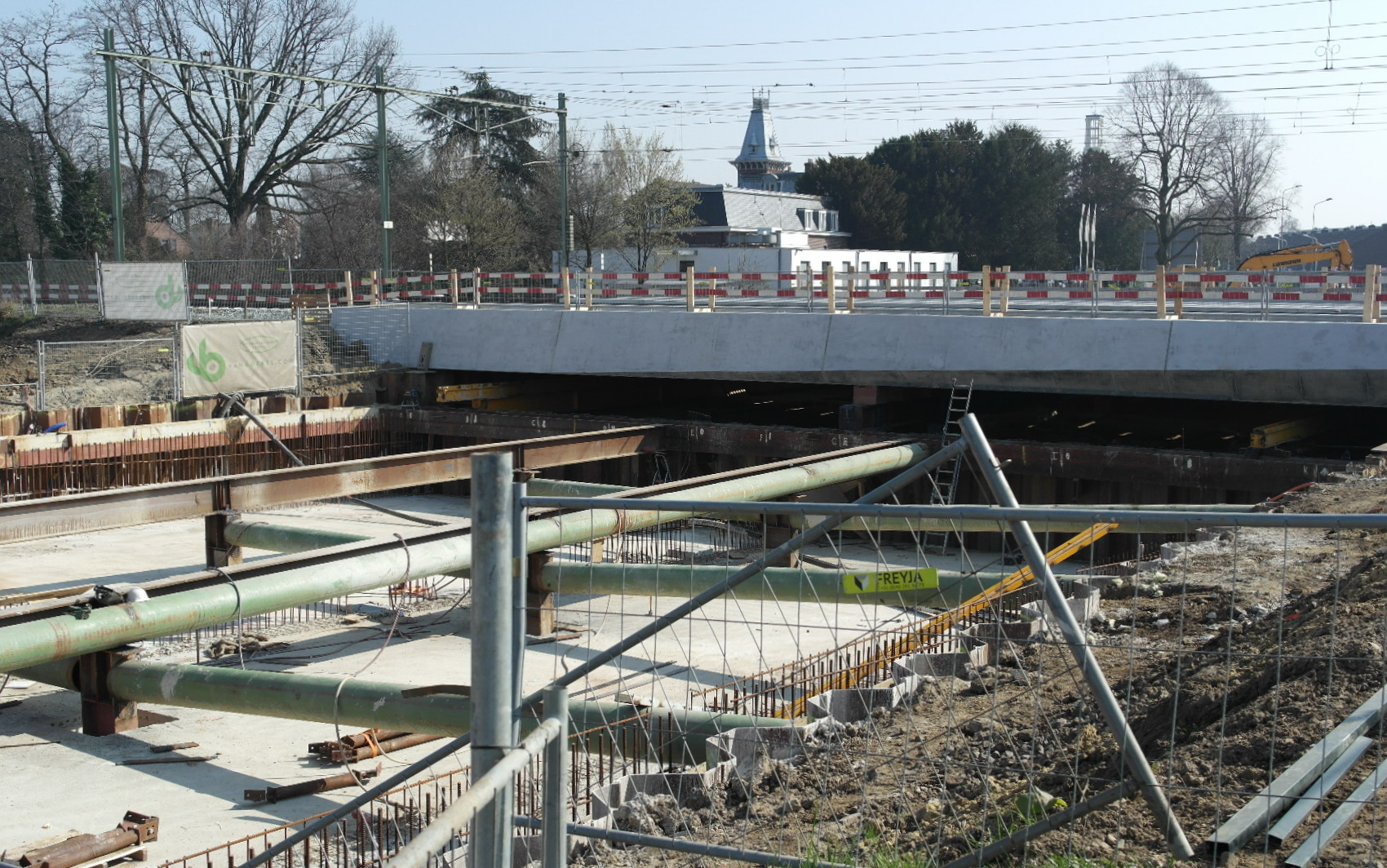 Maastricht, the Netherlands. Construction of an underpass under the railway between the neighbourhoods of Limmel and Nazareth in the northeast of Maastricht.